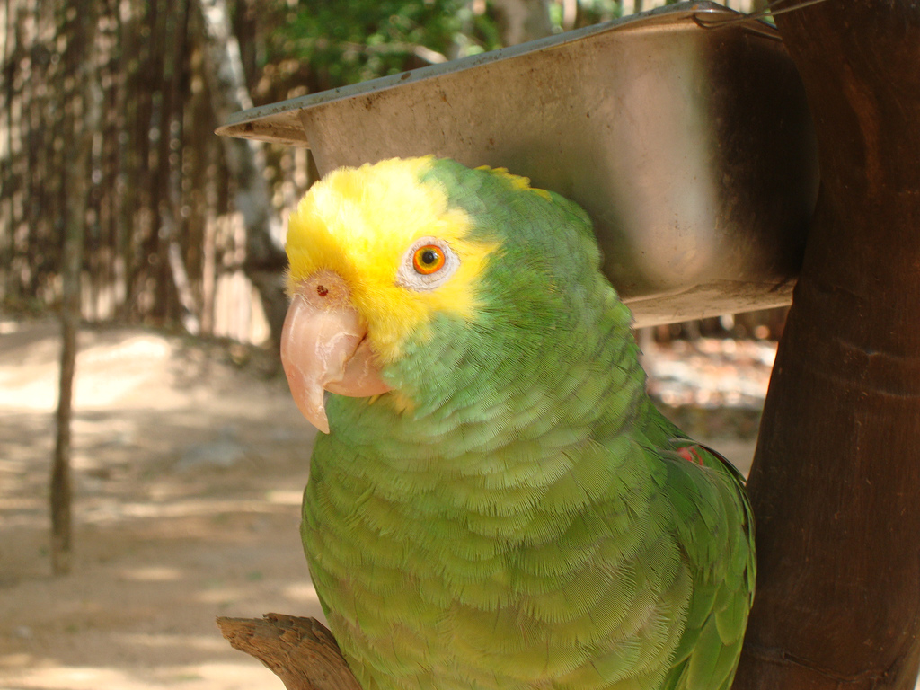 Yellow-headed Amazon (also known as the Double Yellow-headed Amazon).